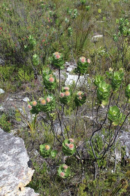 The Riversdale pincushion, Leucospermum winteri, photographed by Brian du Preez, at Romanskraal, Riversdal, Western Cape province of South Africa, on 20 March 2016